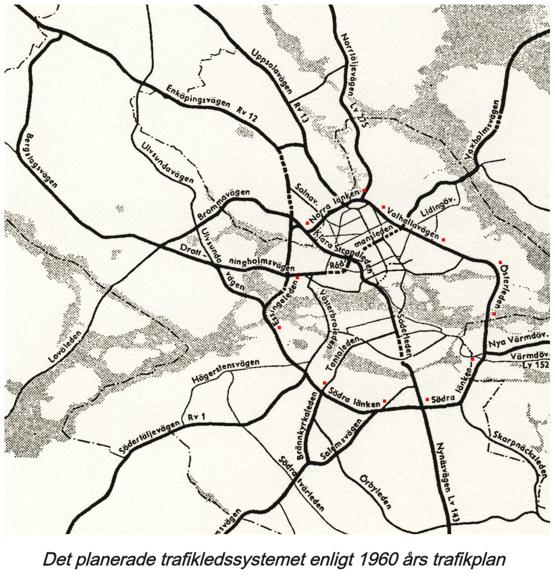 Highway ring around Stockholm 1960